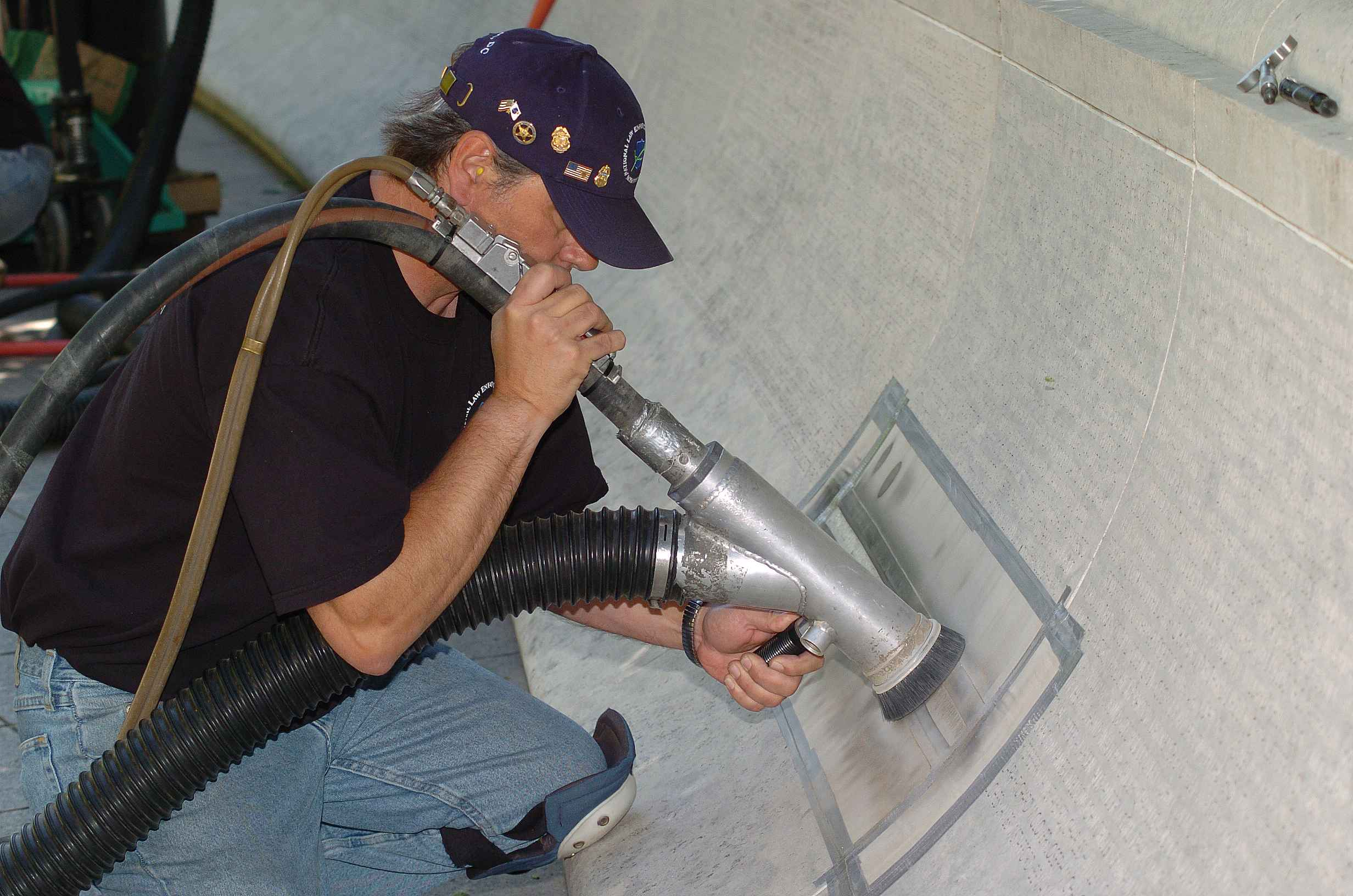 Image title: Man working on wall Image from Public domain images website